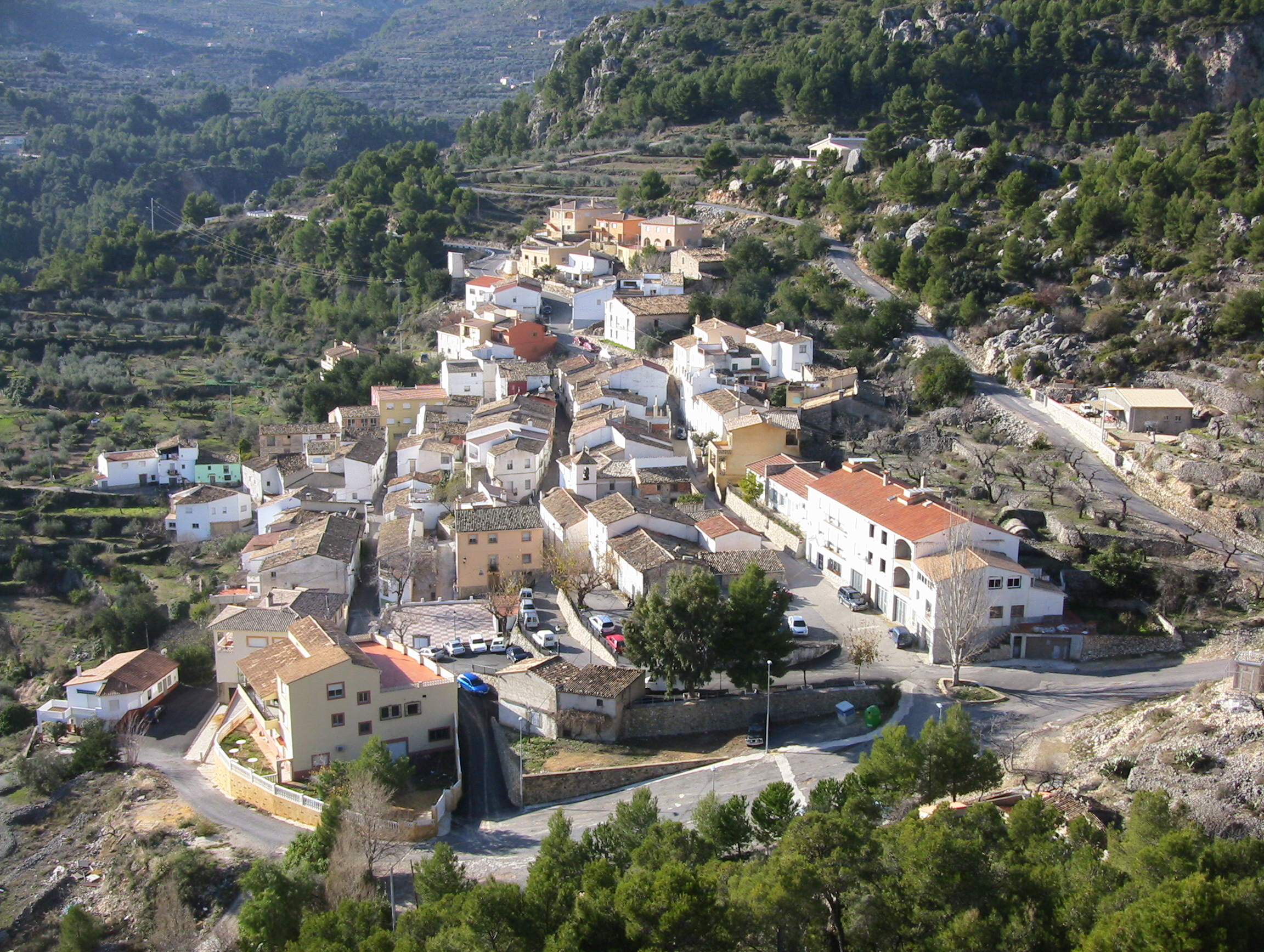 View of Abdet from the cross